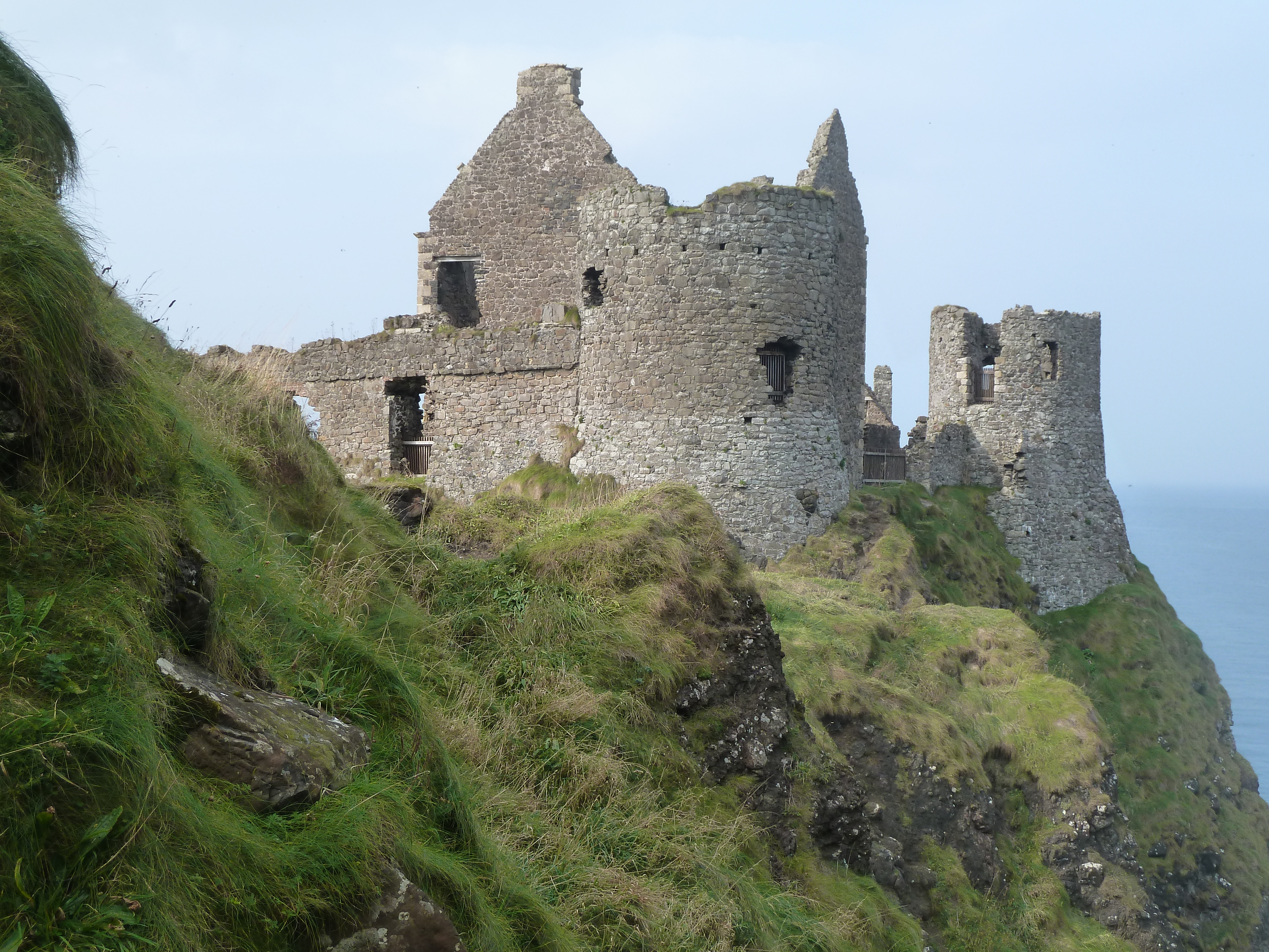 Dunluce Castle, Co. Antrim, Ireland. mid September 2014